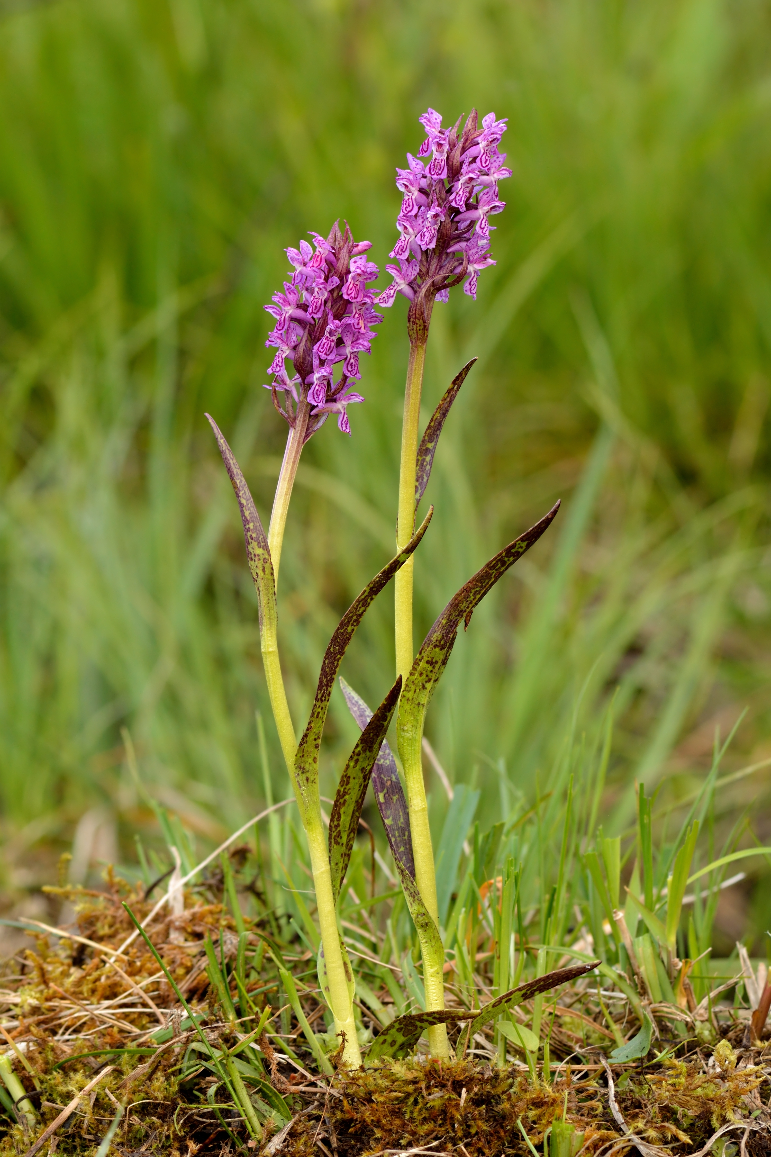 Flecked Marsh Orchid (Dactylorhiza incarnata subsp. cruenta). Niitvälja bog, Northwestern Estonia.